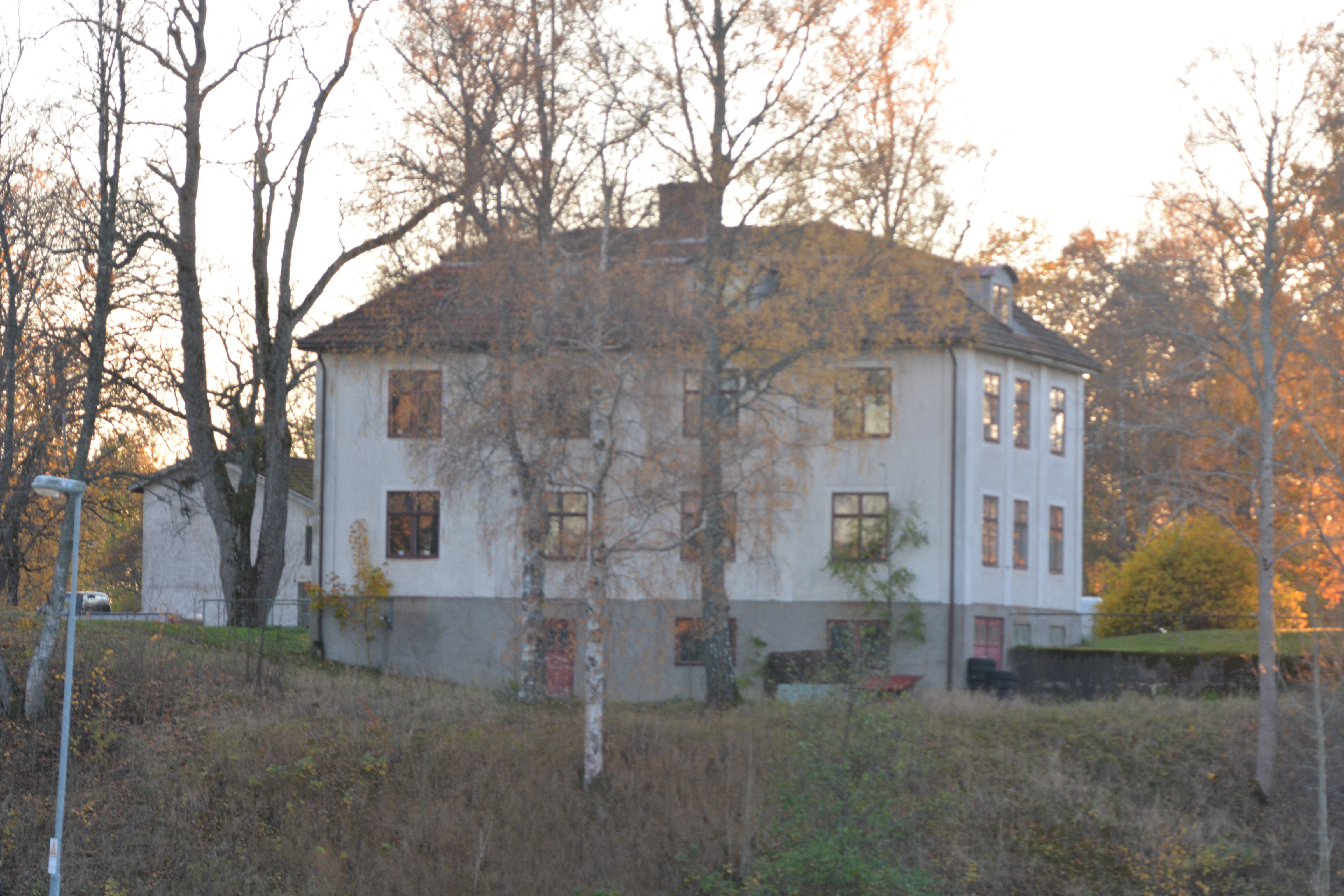 Vedevågs herrgård